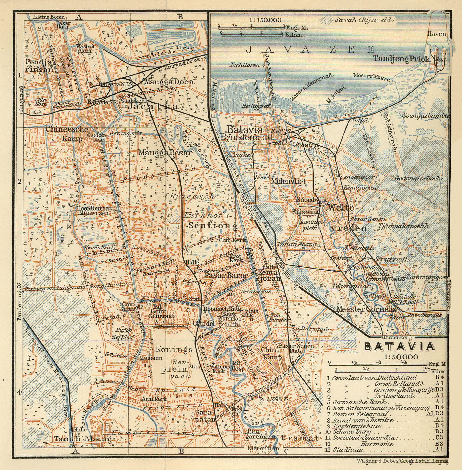 Map of the city of Batavia, modern Jakarta, ca 1914 (1:50,000), incl. a smaller inserted map showing the environs (1:150,000). Labelled in Dutch.